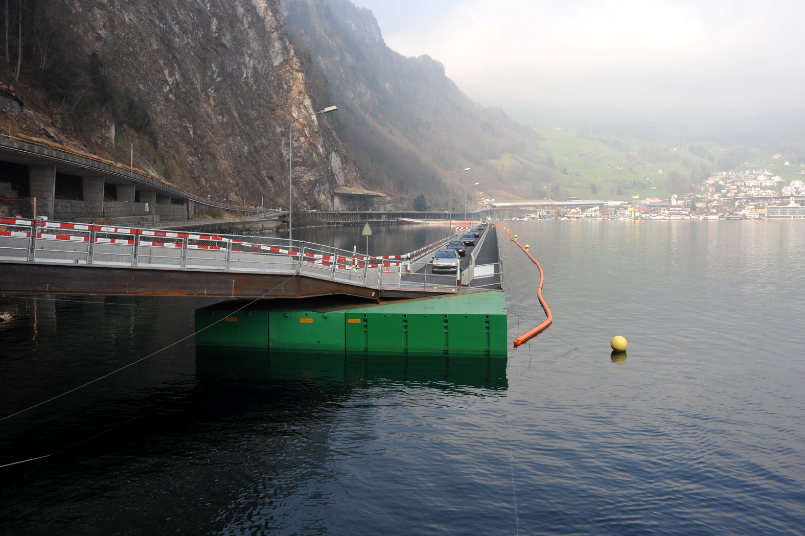 Pontoon temporary bridge at the Lopper northern hillside; Nidwalden, Switzerland. Frequently rock break offs forced authorities to close the road along Lopper 12 October 2009. From 31st March 2010 till 13th May 2011 the traffic was led over an approximately 500 m long pontoon bridge which was unique in Europe.